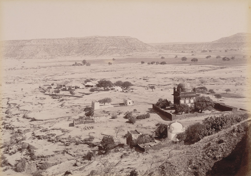 Paradise Cottage (Rest house) and a number of tombs, Rauza, Maharashtra from the Curzon Collection: 'Views of Caves of Ellora and Dowlatabad Fort in H.H. the Nizam's Dominions' taken by Deen Dayal in the 1890s. Rauza or Khuldabad, meaning ‘Heavenly Abode’ is an old walled town in Maharashtra famous for its onion-domed tombs. The town is of religious significance to Muslims as several Muslim saints are interred here.